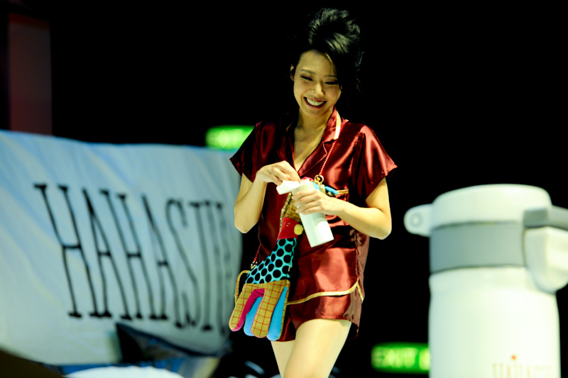 Cheuk Wan Chi Hahasiu Stand-Up Show 2013